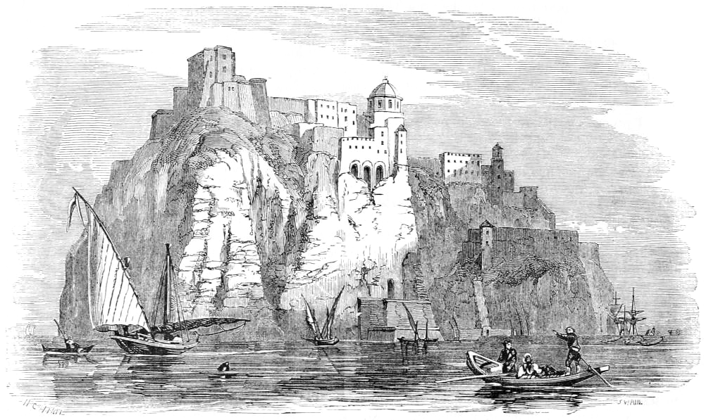 Castle of Ischia (Castello Aragonese) circa 1860; woodcut for a magazine article. Once a Week magazine, volume 2, page 616.